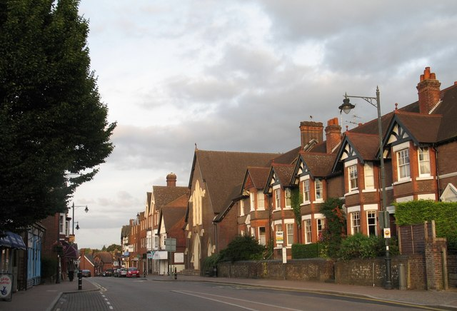 Tring High Street Tring High Street looking East from a point near Christchurch Road.